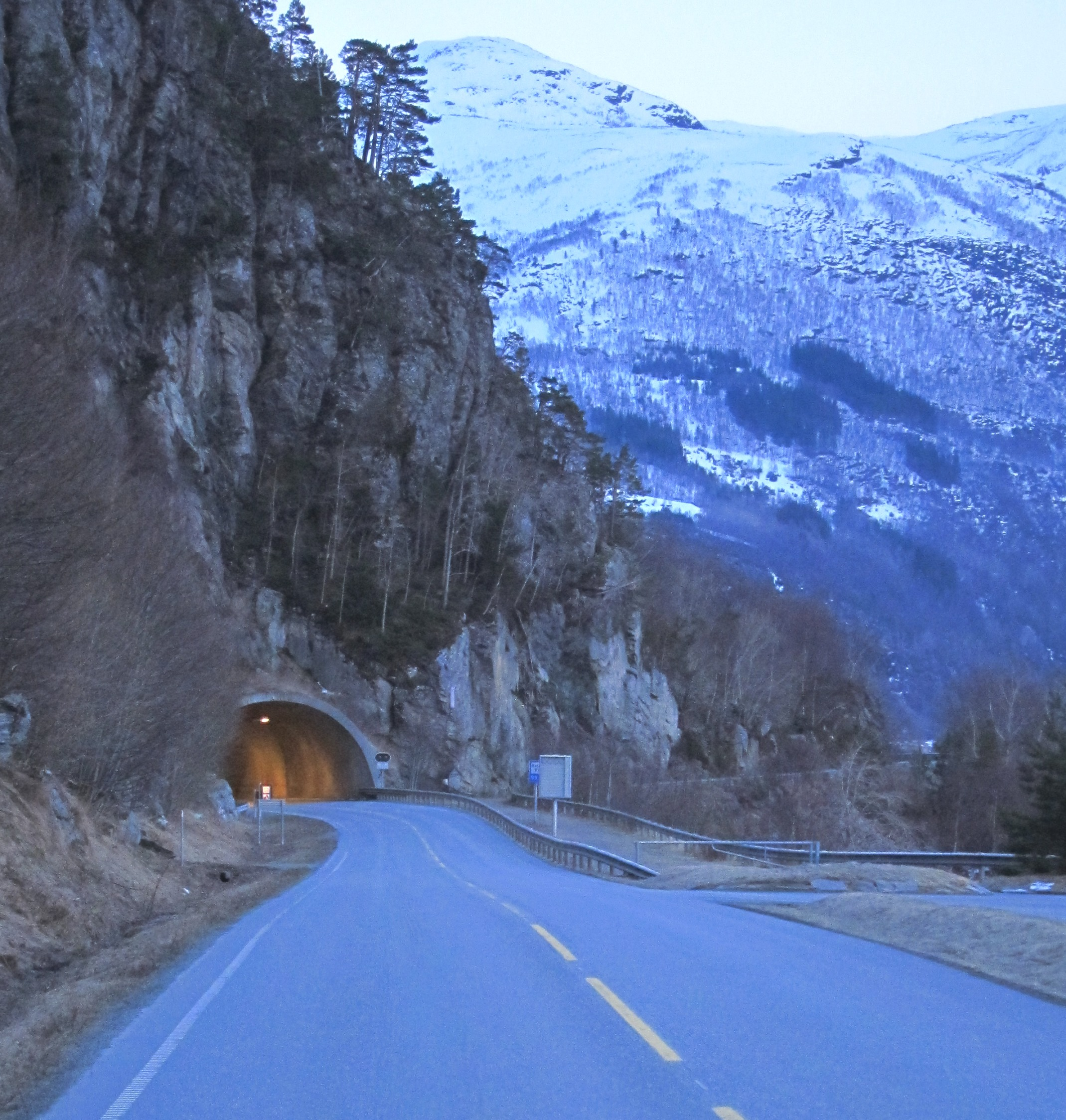 Dyrkorn tunnel on road 650, Møre og Romsdal county, Norway, western entrance